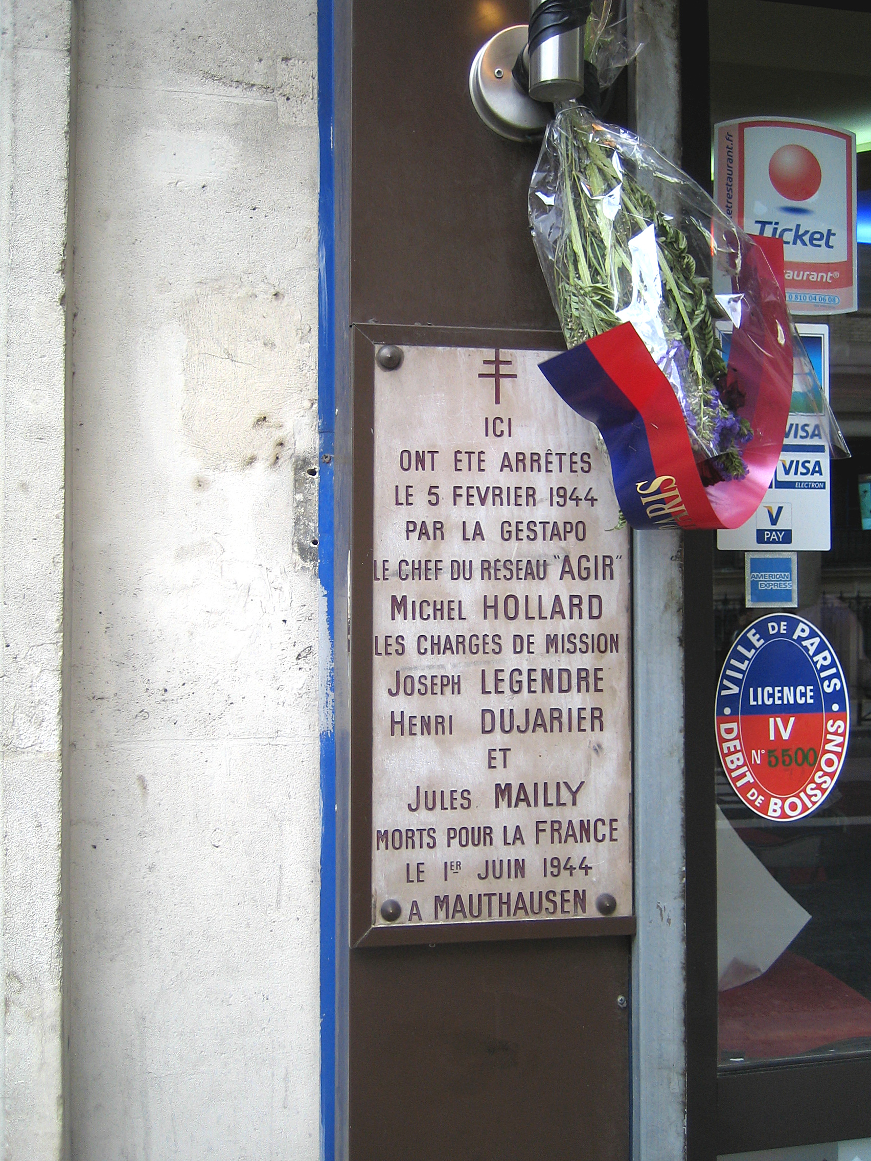 Plaque at the rue du Faubourg Saint-Denis 176, location of the former Café des Chasseurs; Paris, France. The plaque commemorates the arrestation of Michel Hollard and three other members of the Réseau Agir on 5 February 1944 by the Gestapo.